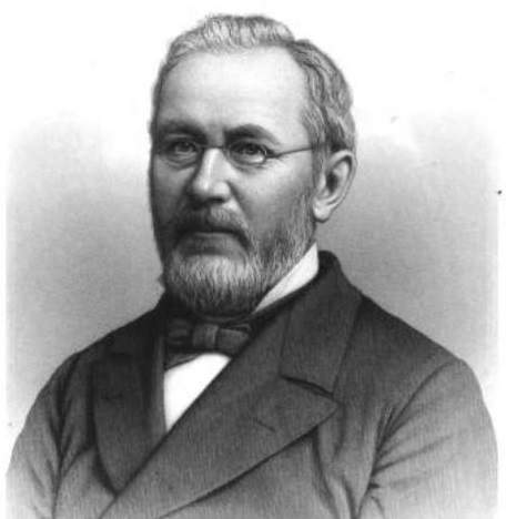 Samuel S. Blair (Pennsylvania Congressman)